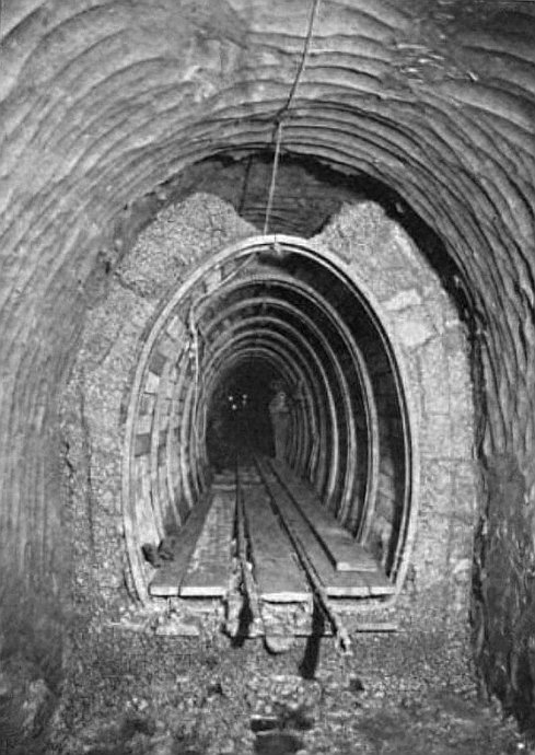 Original captions: Mines and Minerals: "Lateral Tunnel Under Construction." Page's: "LATERAL CONDUIT UNDER CONSTRUCTION." Western: "Lateral Conduit Under Construction" and inscribed on the photo, "[Illegible] 9-15-02 Ill. Telephone & Telegraph Co -- Construction Methods --". This image is a composite from 3 published sources in order to eliminate artifacts from both printing and scanning. For scale, note that the track in the tunnel is 14-inch gauge.